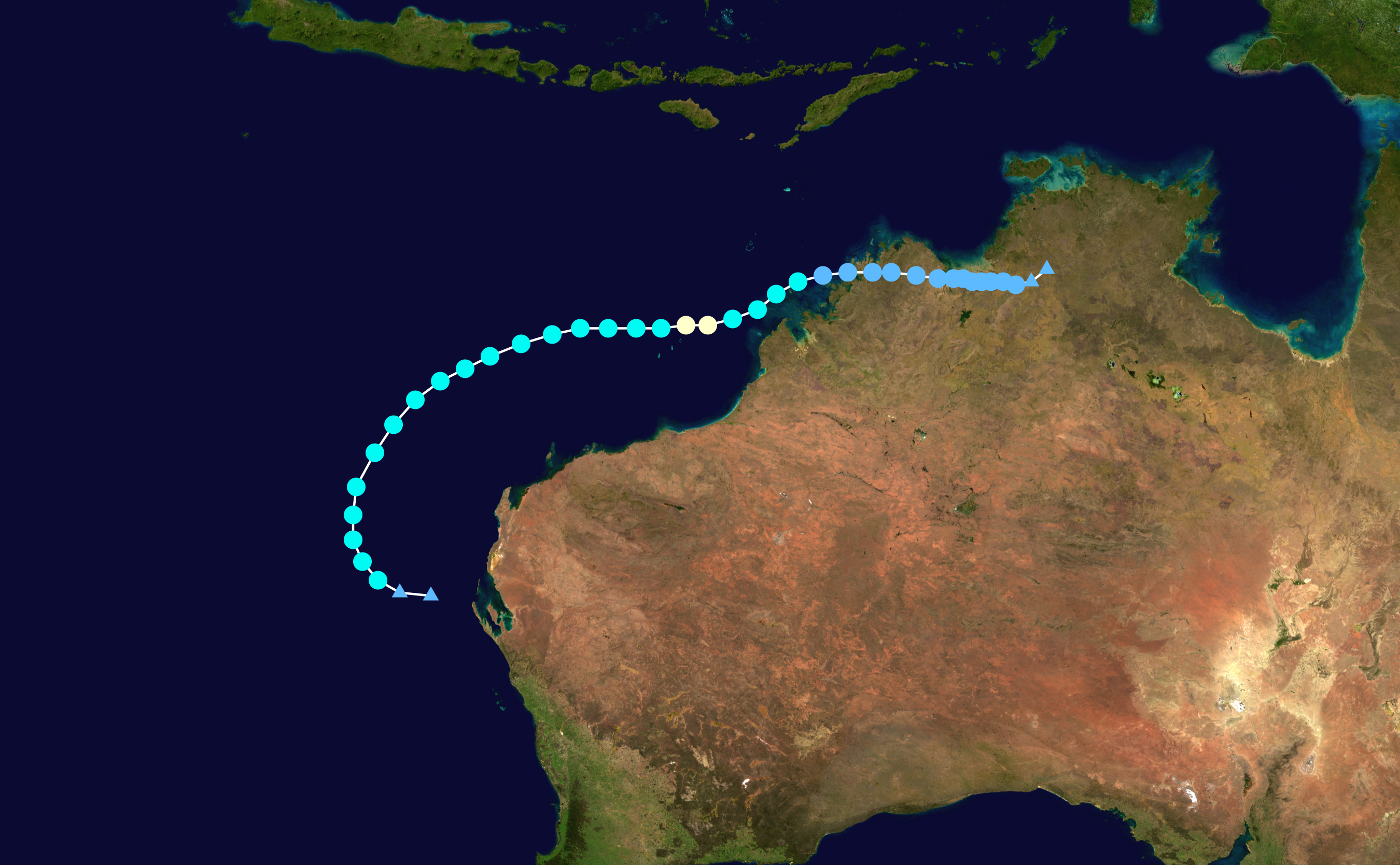 Track map of Tropical Cyclone Ophelia of the 2007-08 Australian region cyclone season. The points show the location of the storm at 6-hour intervals. The colour represents the storm's maximum sustained wind speeds as classified in the Saffir–Simpson scale (see below), and the shape of the data points represent the nature of the storm, according to the legend below. Saffir–Simpson scale Tropical depression≤38 mph≤62 km/h Category 3111–129 mph178–208 km/h Tropical storm39–73 mph63–118 km/h Category 4130–156 mph209–251 km/h Category 174–95 mph119–153 km/h Category 5≥157 mph≥252 km/h Category 296–110 mph154–177 km/h Unknown Storm type Tropical cyclone Subtropical cyclone Extratropical cyclone / Remnant low / Tropical disturbance / Monsoon depression